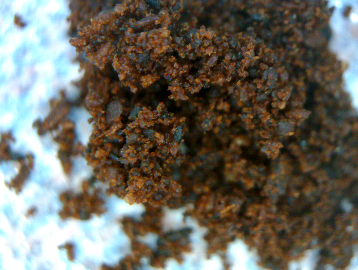 Microscope image of snuff (nasal tobacco): "Bernard - Schmalzler Franzl Brasil".